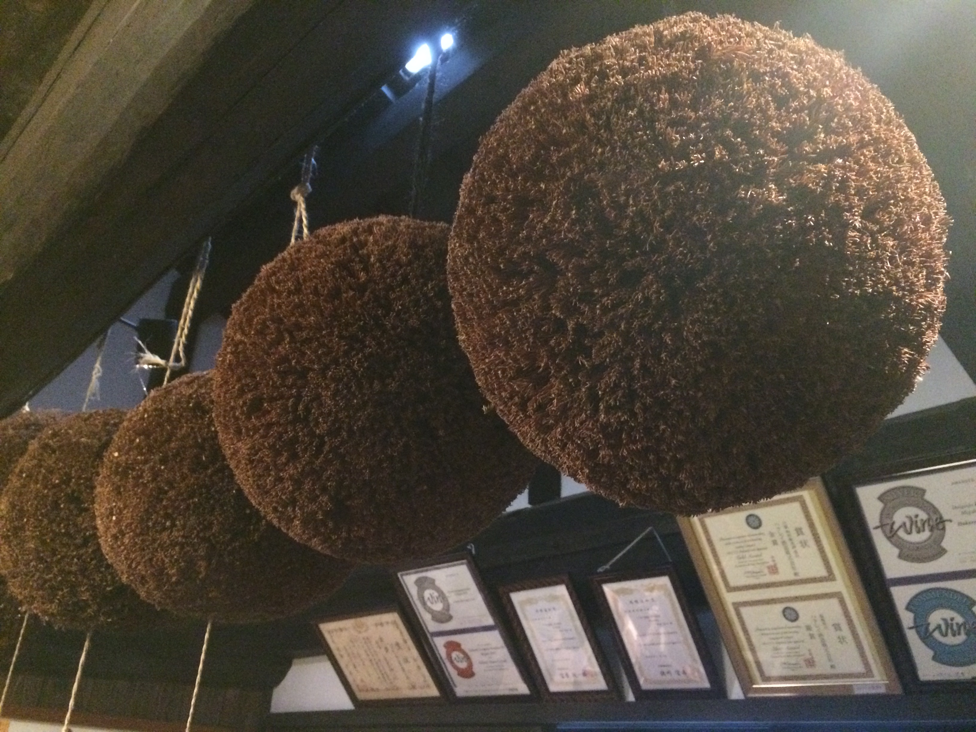 hakurei sake brewery in Yura,miyazu city,kyoto pref